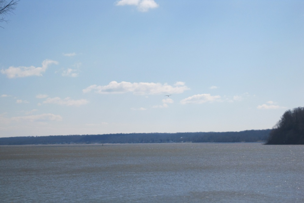 Crow's Nest Natural Area Preserve from across the Potomac River in Stafford County, VA